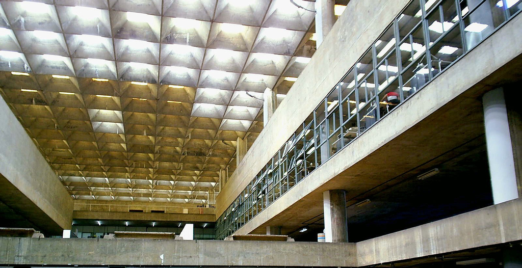 The main building of the Faculty of Architecture and Urban Planning at the University of São Paulo, in Brazil. Picture taken by me (Gabriel Fernandes). Another version can be found at